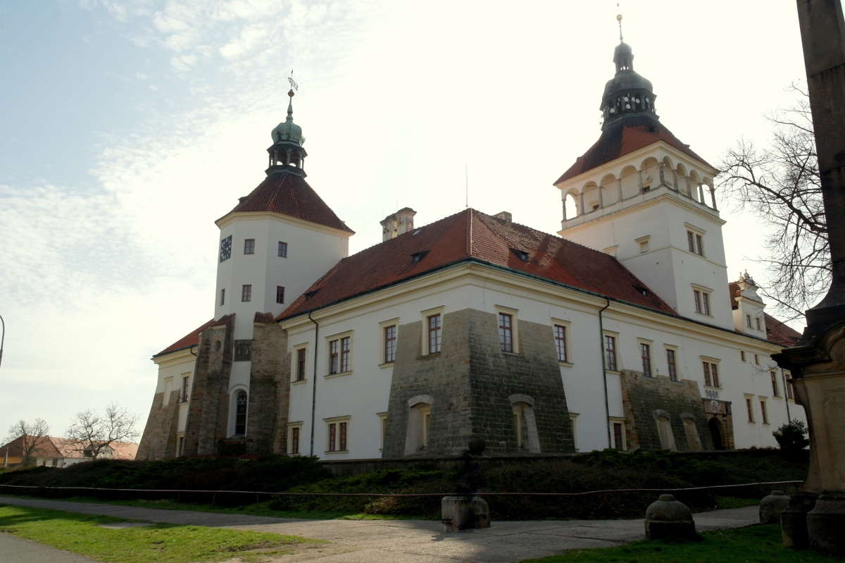 Smečno Castle, 1 Smečno, Smečno, Kladno District. The norteast corner. Quadrangular tower of the north wing on the right, polygonal tower of the east wing on the left.